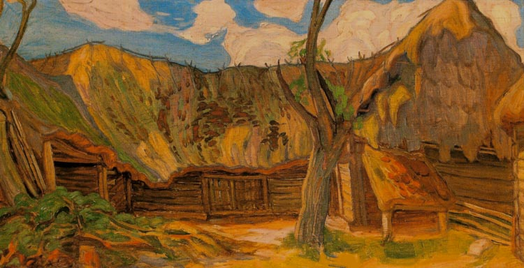 Old barns